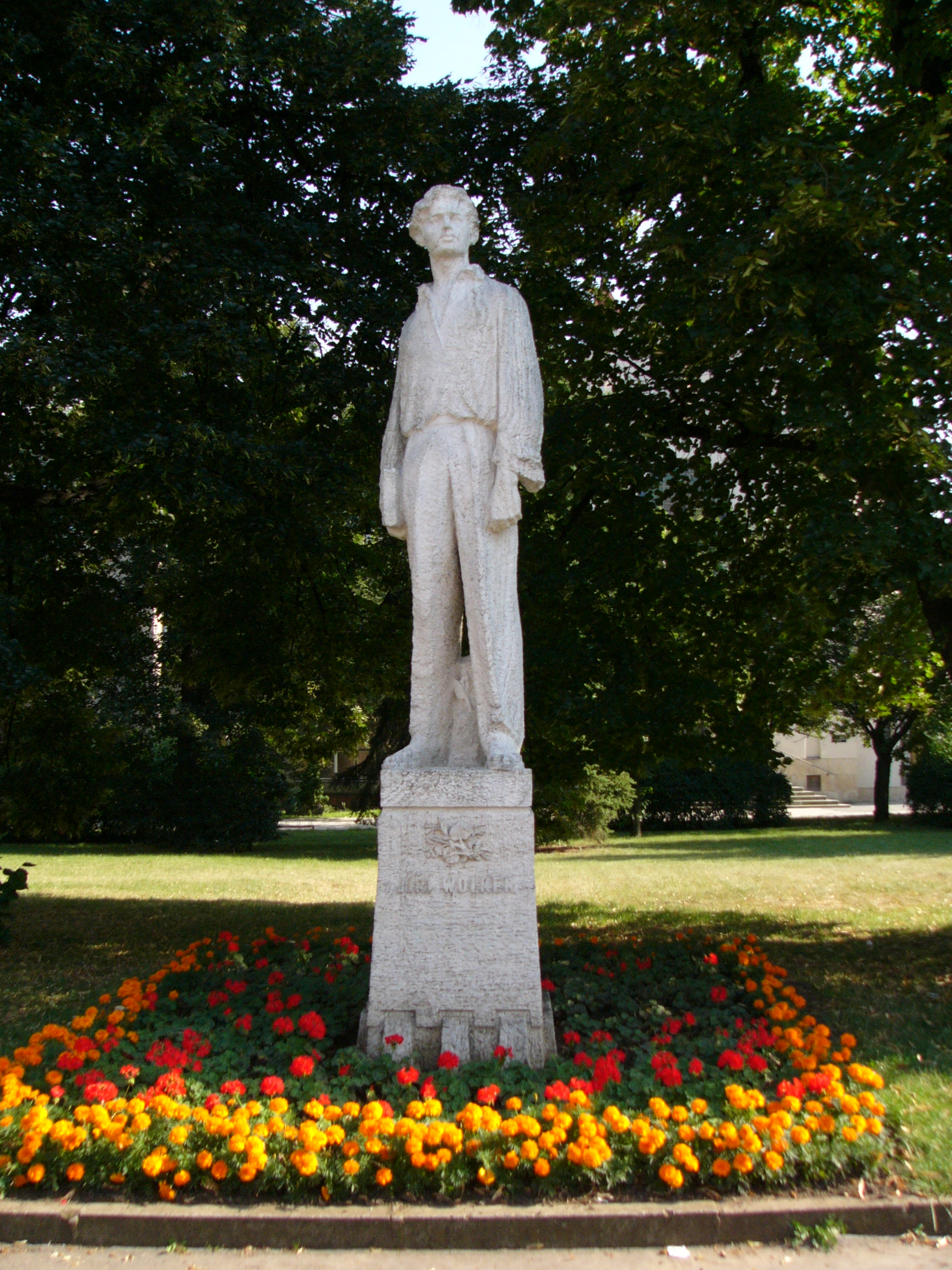 Statue of Czech poet Jiří Wolker in nám. Edmunda Husserla square, Dukelská brána, Prostějov